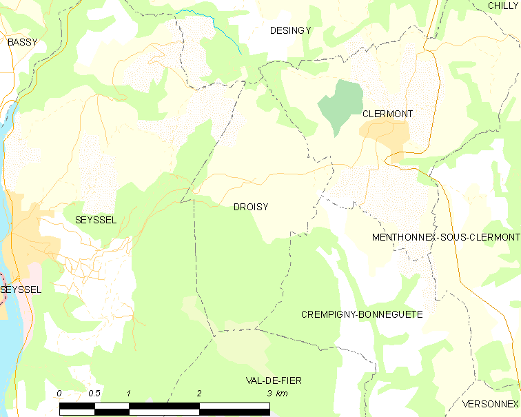 Map of French municipality Droisy